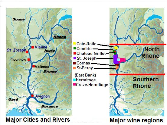 Modified version of Commons image Image:Rhone transit suspension.jpg to show the major cities, rivers and wine regions of the Northern Rhone Valley